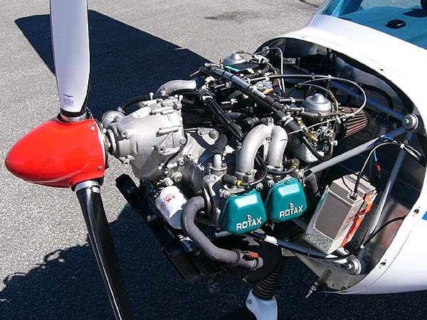 Rotax 912Sphoto of a 3Xtrim 3X55 Trainer on 21 August 2006 at Peterborough, Ontario